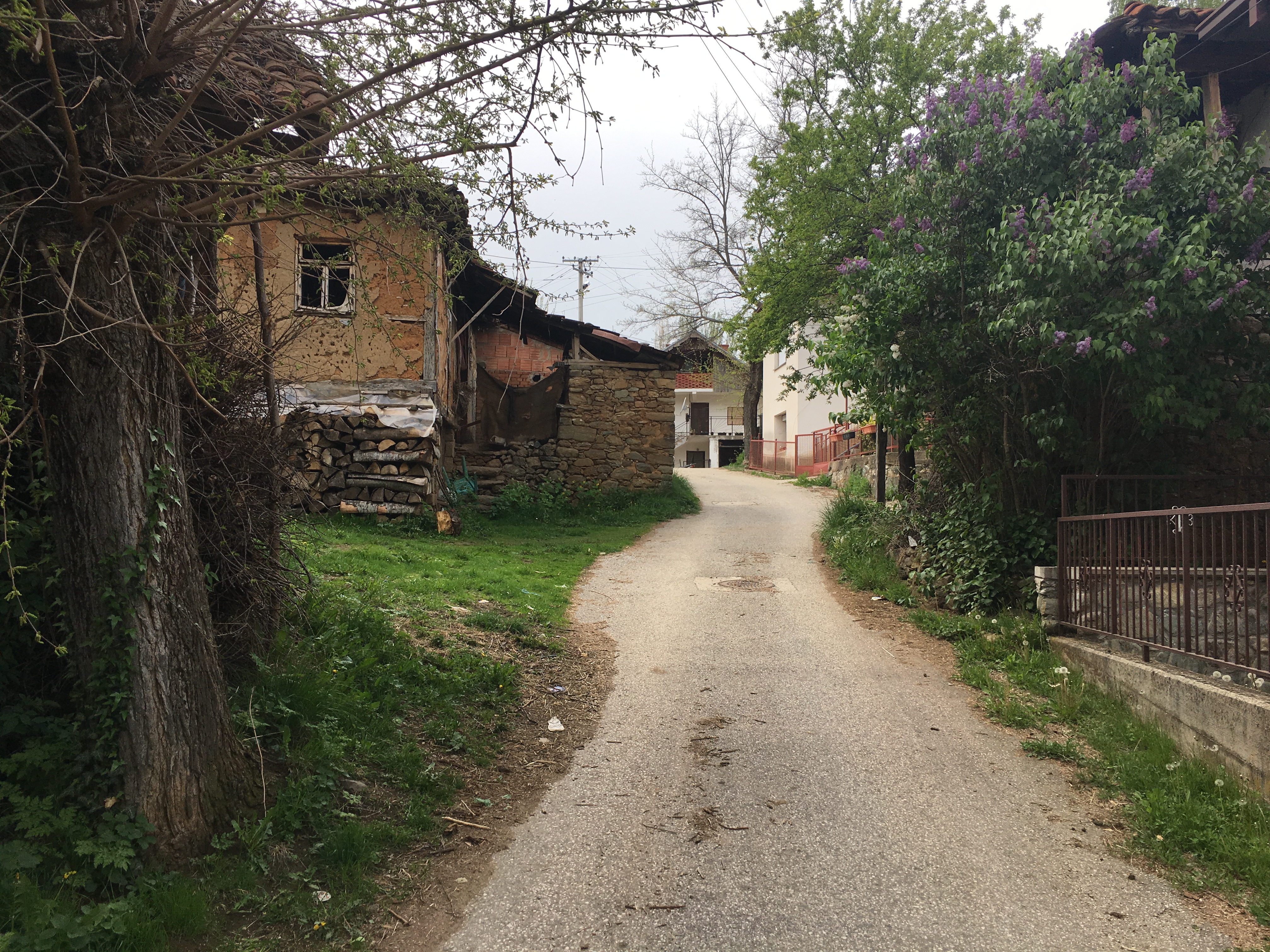 A street through the village of Moždivnjak